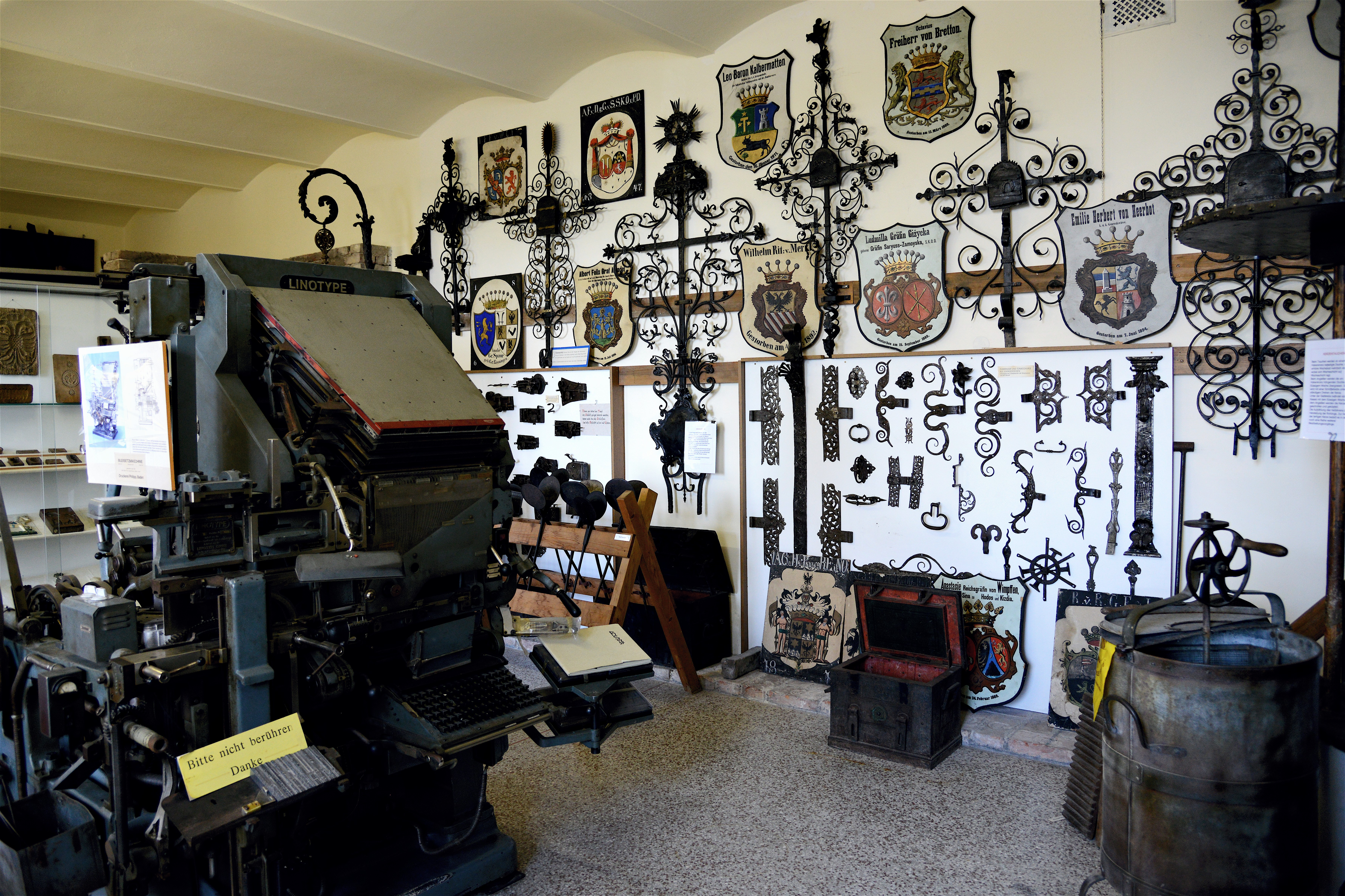 Der Zeno-Gögl-Saal im Kaiser-Franz-Josef-Museum in Baden bei Wien, 2013